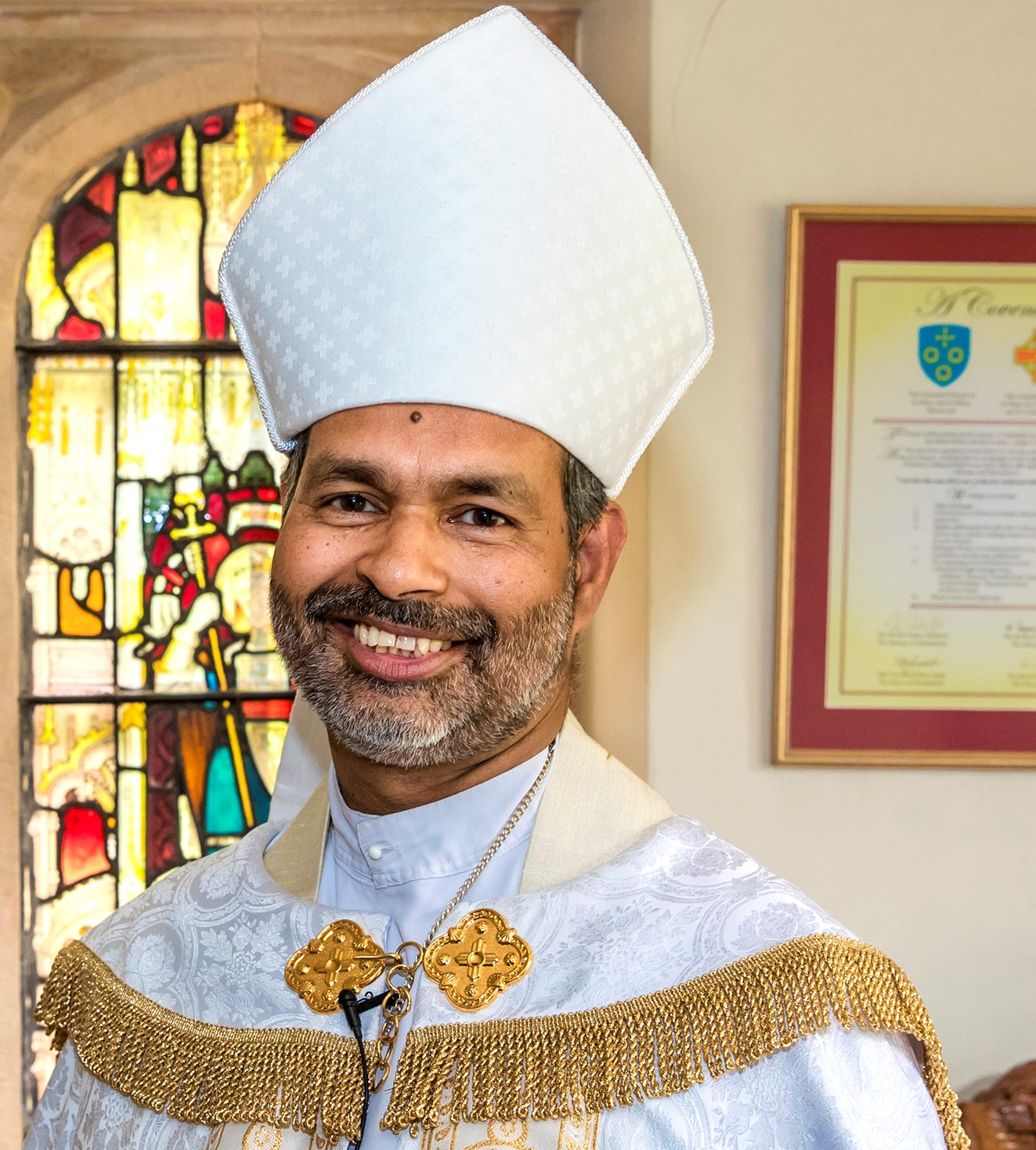 at his installation in Chelmsford Cathedral in 2018